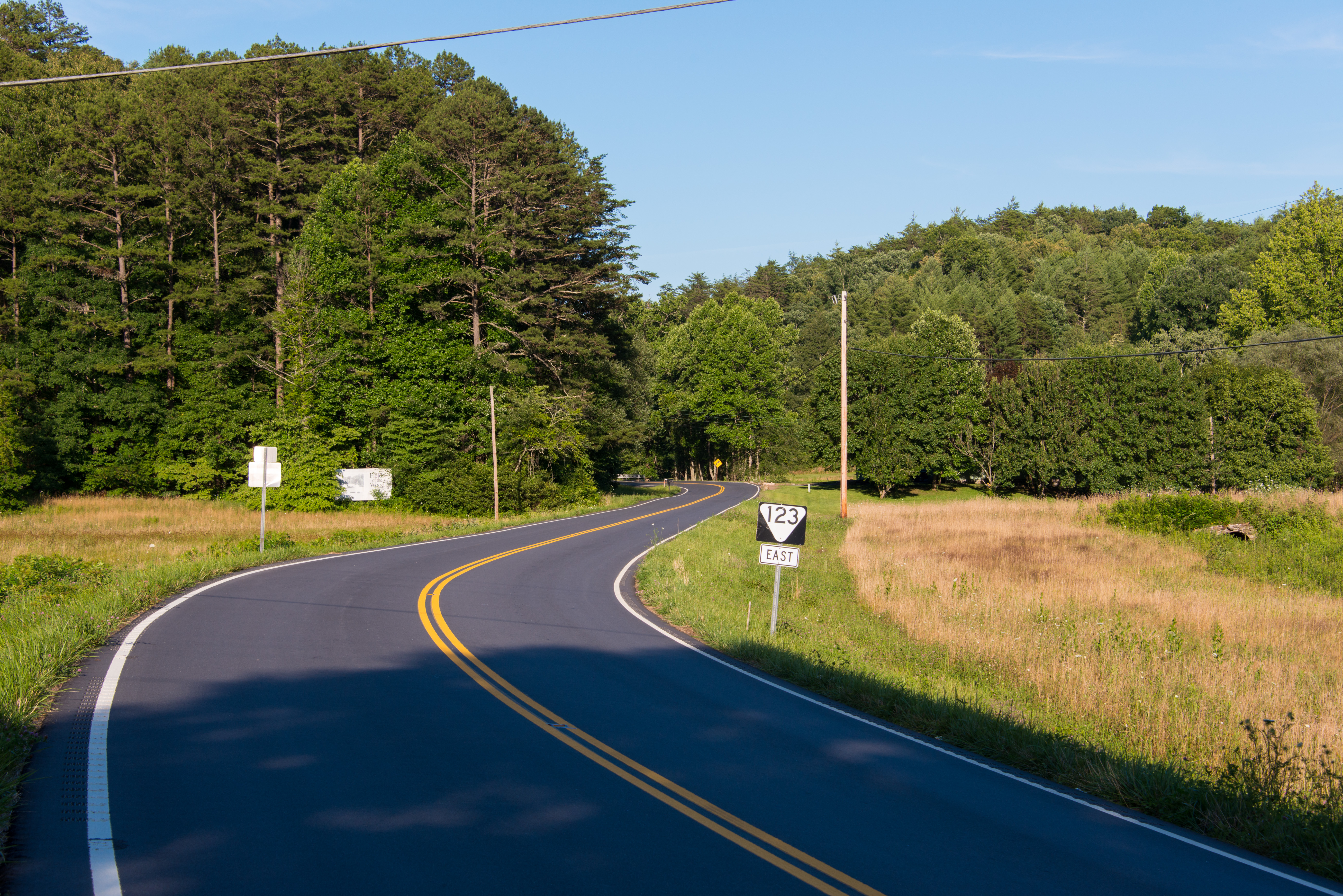 From the split with Tennessee State Route 68, Tennessee State Route 123 heads east towards North Carolina.